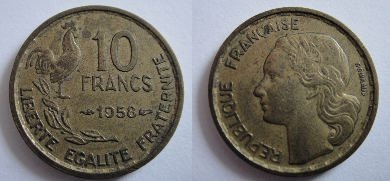 1958 10 French Francs coin